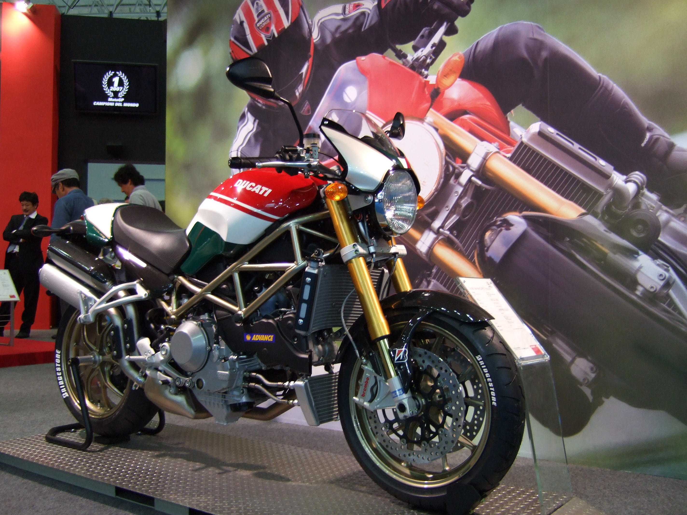 Ducati Monster S4R S Tricolore(2008)on display at TOKYO MOTORSHOW 2007